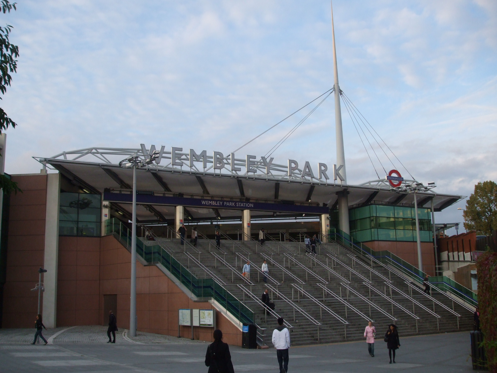 Wembley Park tube station new entrance facing south, towards Wembley Stadium